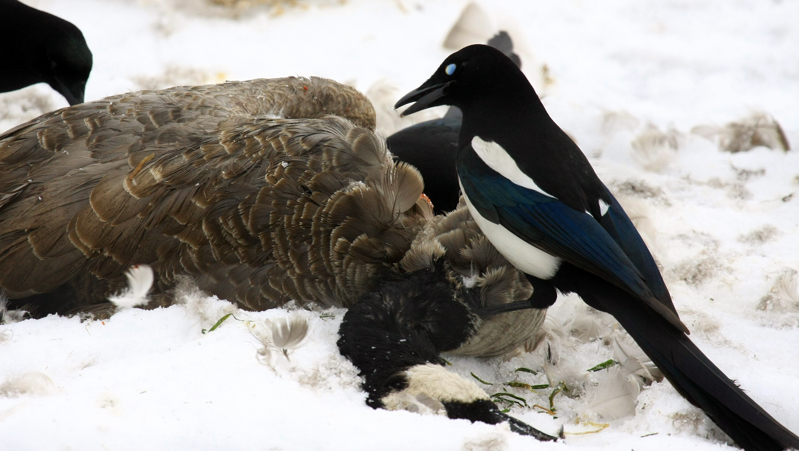 Black-billed Magpies Pica hudsonia eat from a Canada Goose Branta canadensis carcass. UNR Agriculture Fields, Washoe County, Nevada, USA.